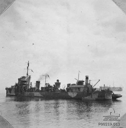 Royal Navy destroyer HMS Wryneck, with a tug in background, Mediterranean Sea, probably Sollum, Egypt